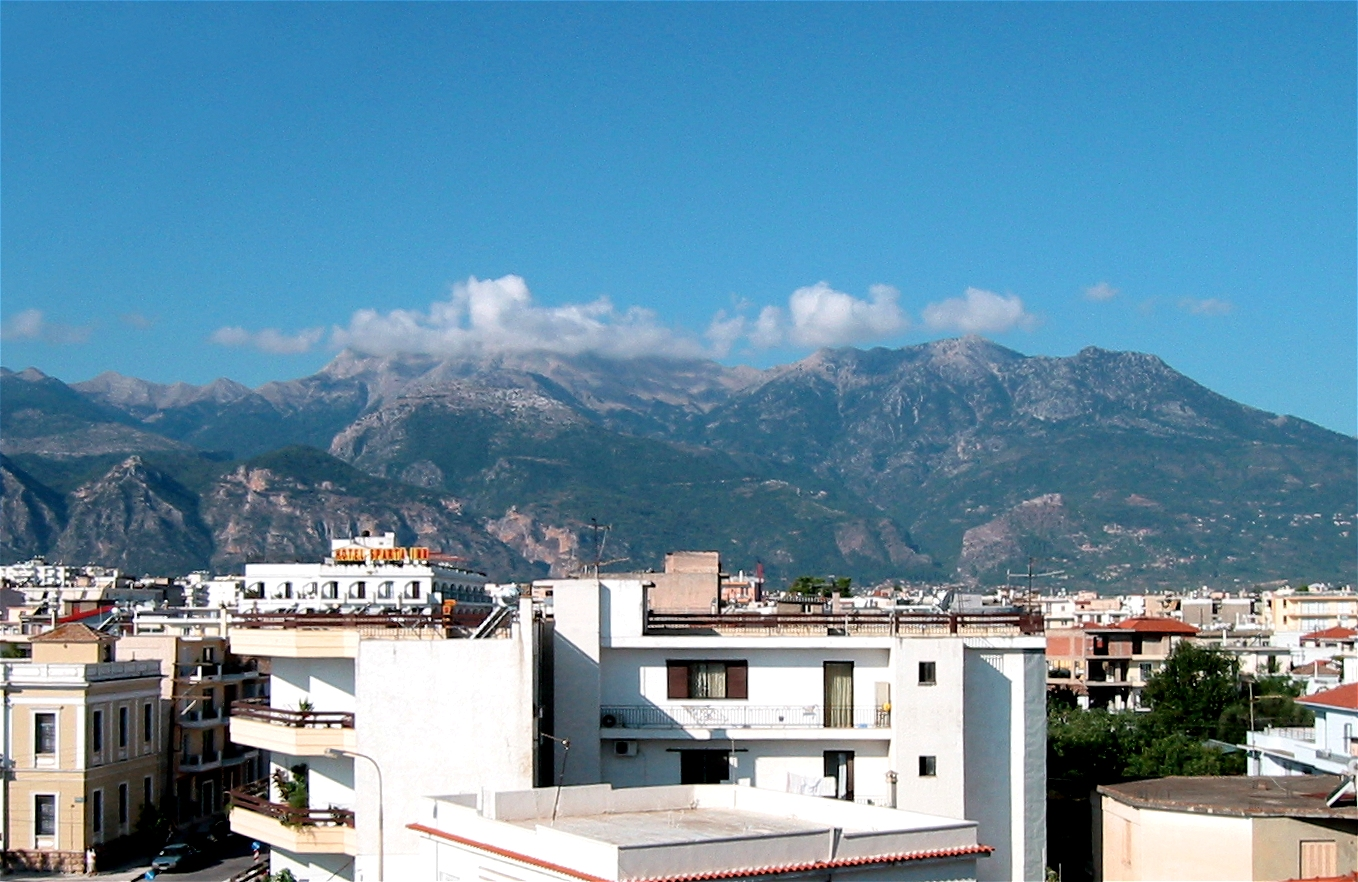 The mountain peaks of the Taygetus range west of Sparta on Peloponnese in Greece. The summit Profitis Ilias (2,407 m) can be seen above the letter "O" of the sign "HOTEL SPARTA".